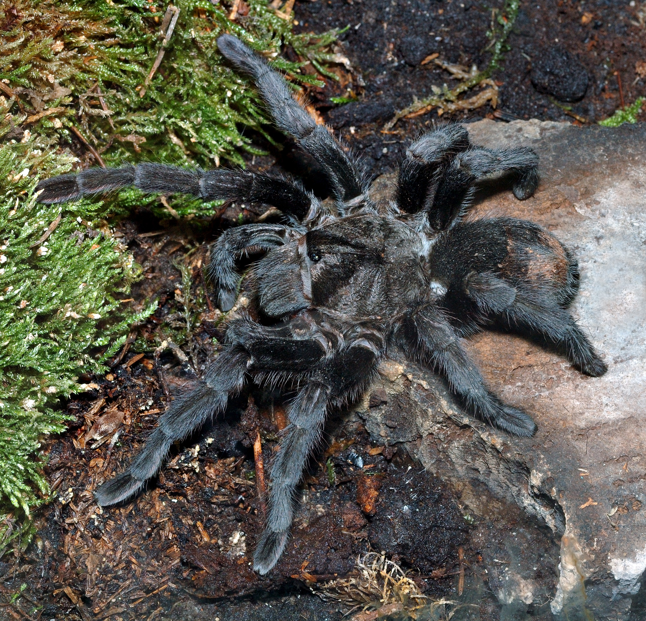 This image shows a tarantula of the species Grammostola pulchra.